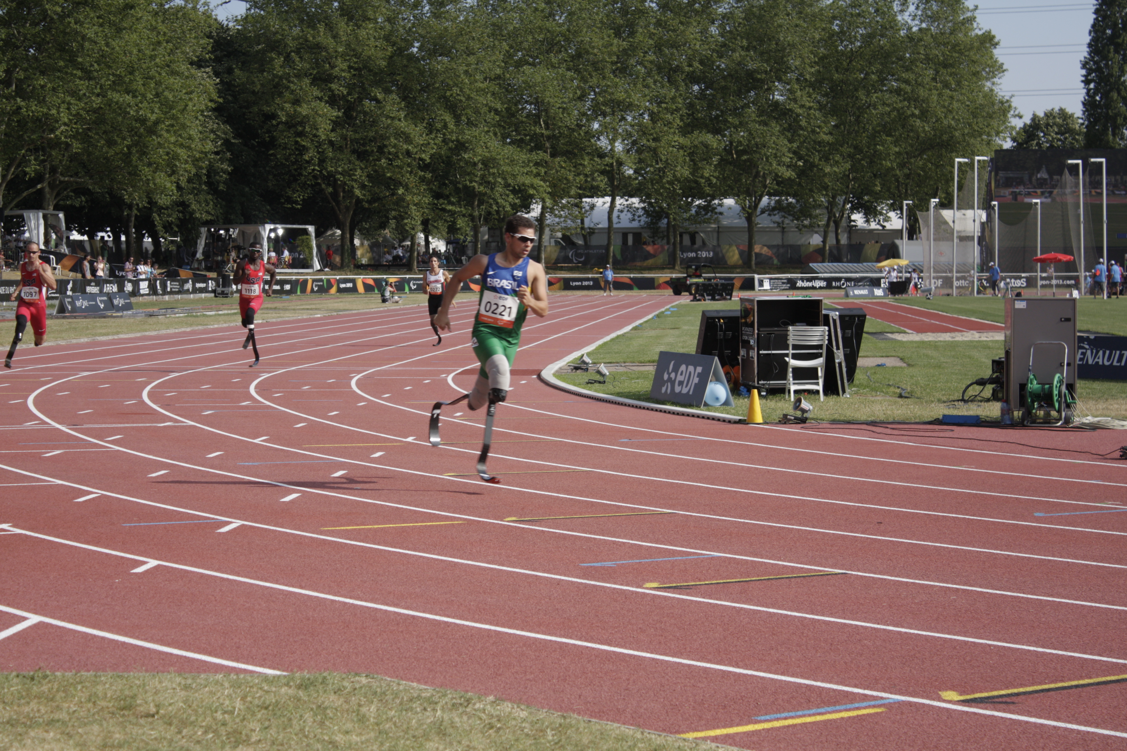 Alan Fonteles Cardoso Oliveira at the 2013 IPC Athletics World Championships (400 meters qualifications) Alan Oliveira (0221) of Brazil posts a personal best in the T44 400m qualifiers, competing in the same race are American athletes Rob Brown (1097) and Blake Leeper (1118) and Canada's Jackie Marciano (0272).